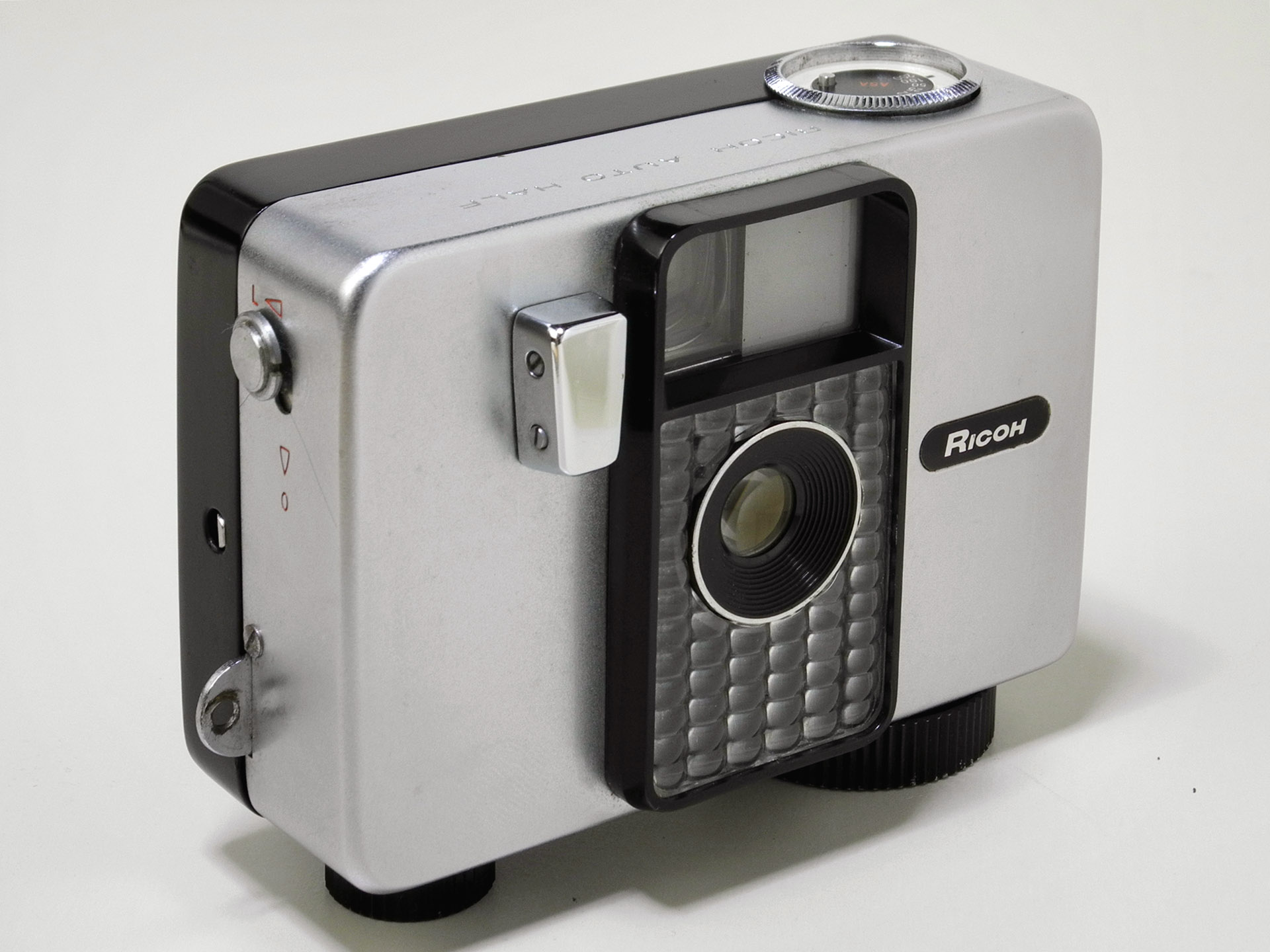 Ricoh Autohalf